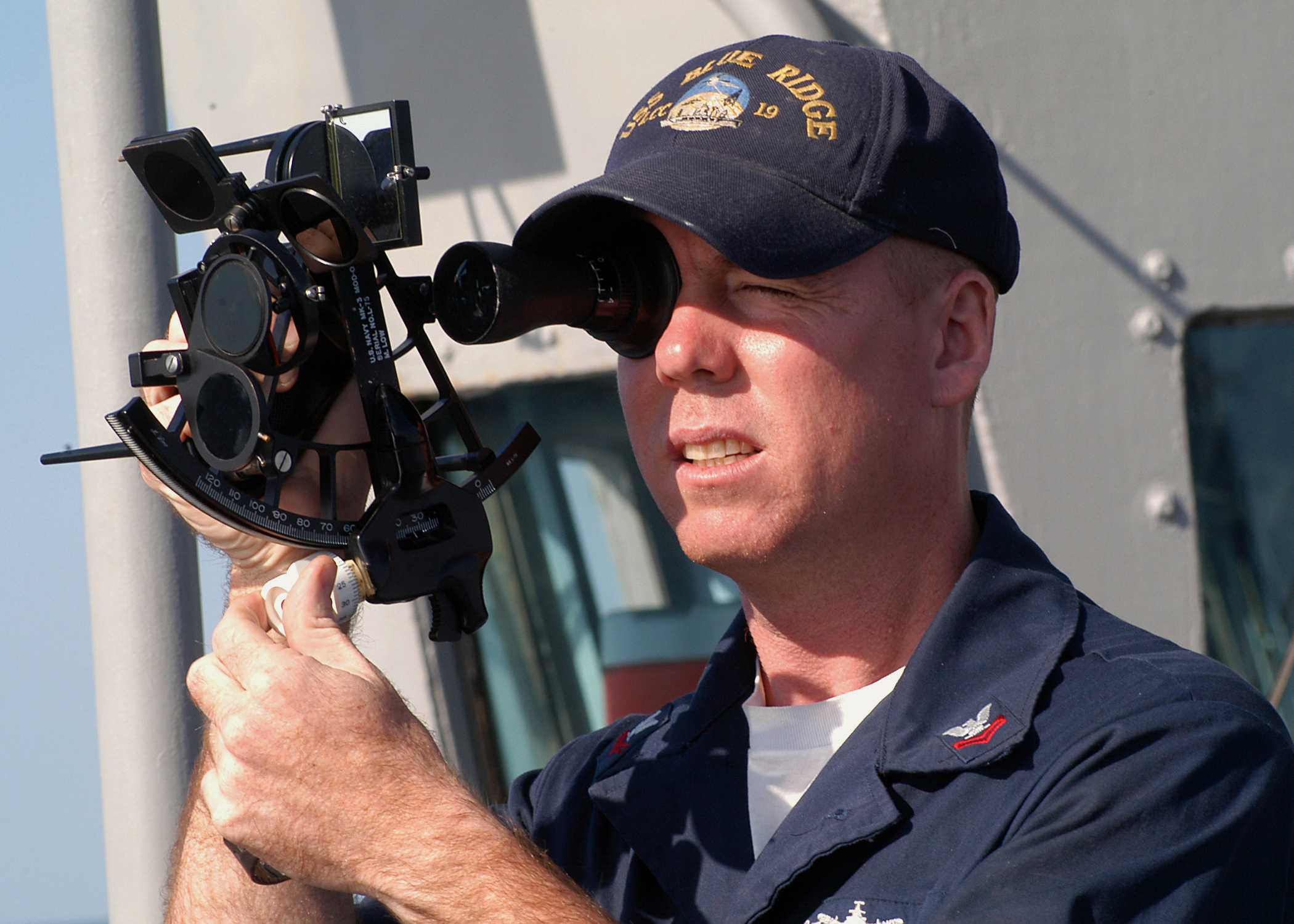 Aboard USS Blue Ridge (LCC 19) Oct. 25, 2003 -- Quartermaster 2nd Class Martineau, from Ft. Lauderdale, Fla., uses a sextant to shoot the sun line from the port bridge wing of USS Blue Ridge (LCC 19). U.S. Navy photo by Photographer’s Mate 1st Class Novia E. Harrington. (RELEASED)